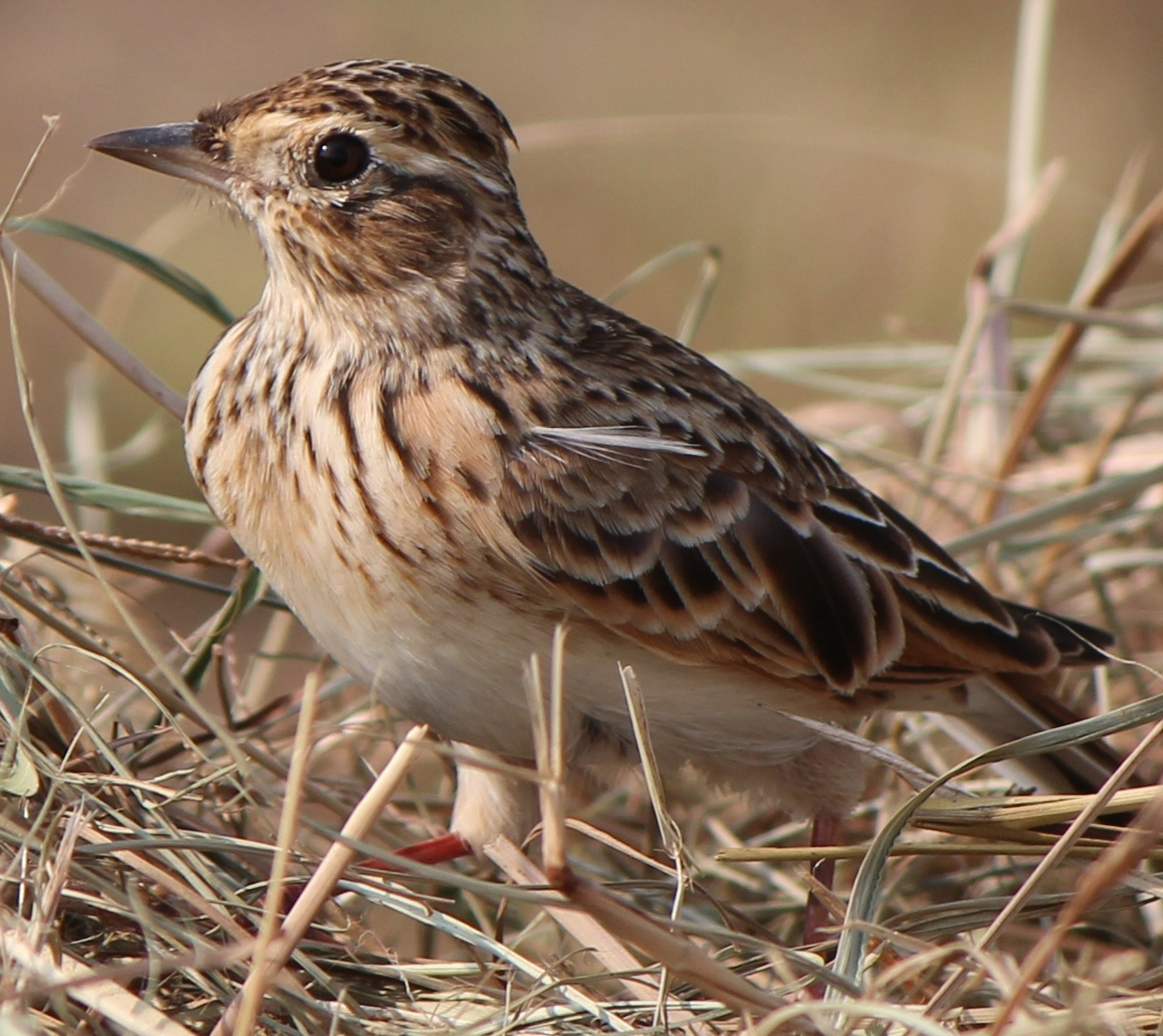 Alauda arvensis japonica (Eurasian Skylark) in Japan.